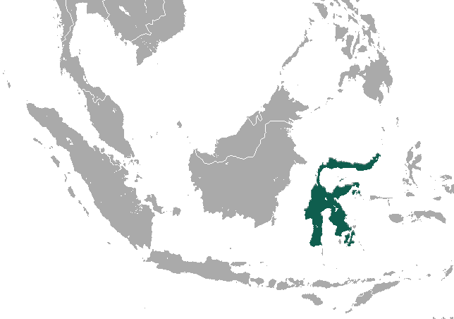 Sulawesi Bear Cuscus (Ailurops ursinus) range